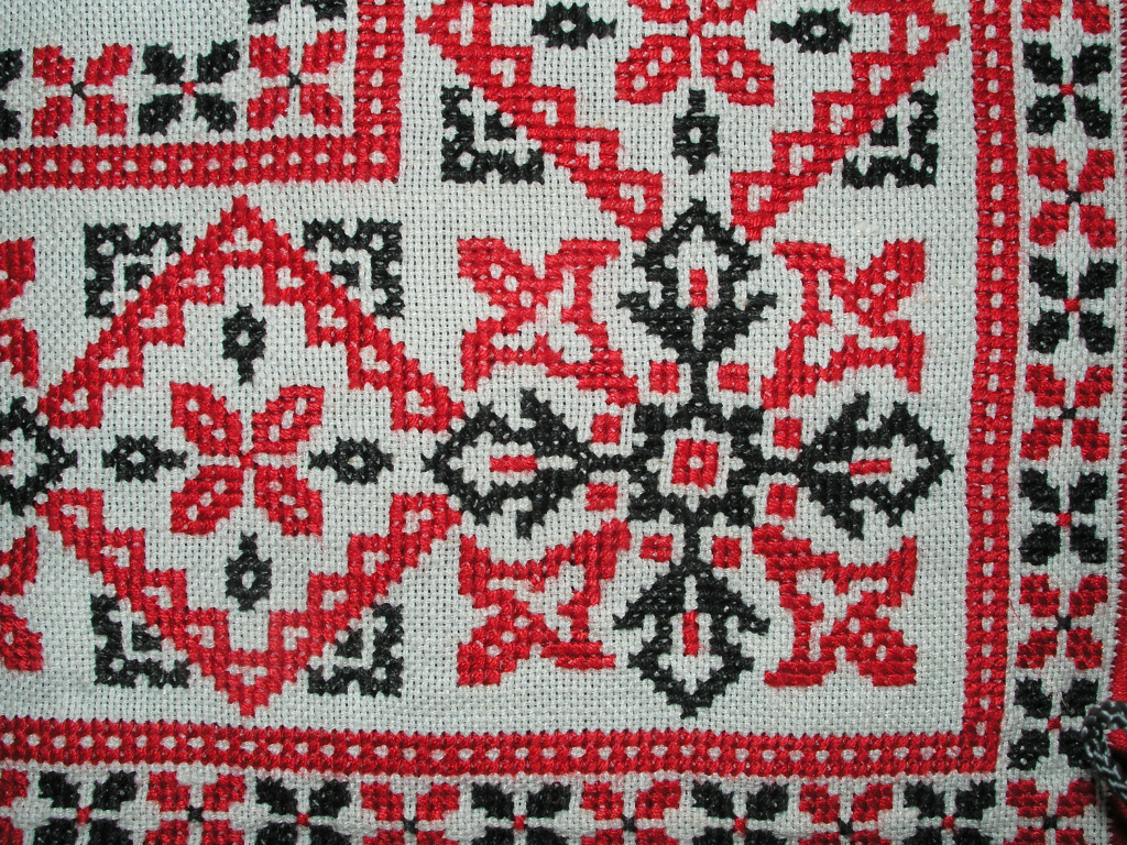 Cross-stitch embroidery. Tea cloth border, black and red cotton floss, Hungarian, mid-twentieth century. Black and red cross-stitch patterns are characteristic of the folk embroidery of eastern and central Europe. Photo by Paula Kate Marmor, 12 November 2005.